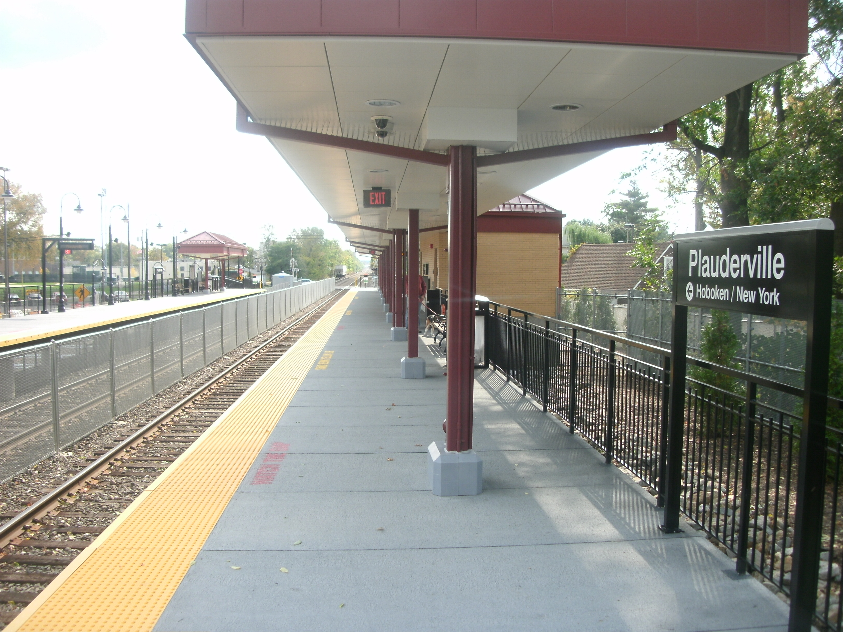 The current high-level platform station at Plauderville in Garfield, New Jersey as seen in October 2011.